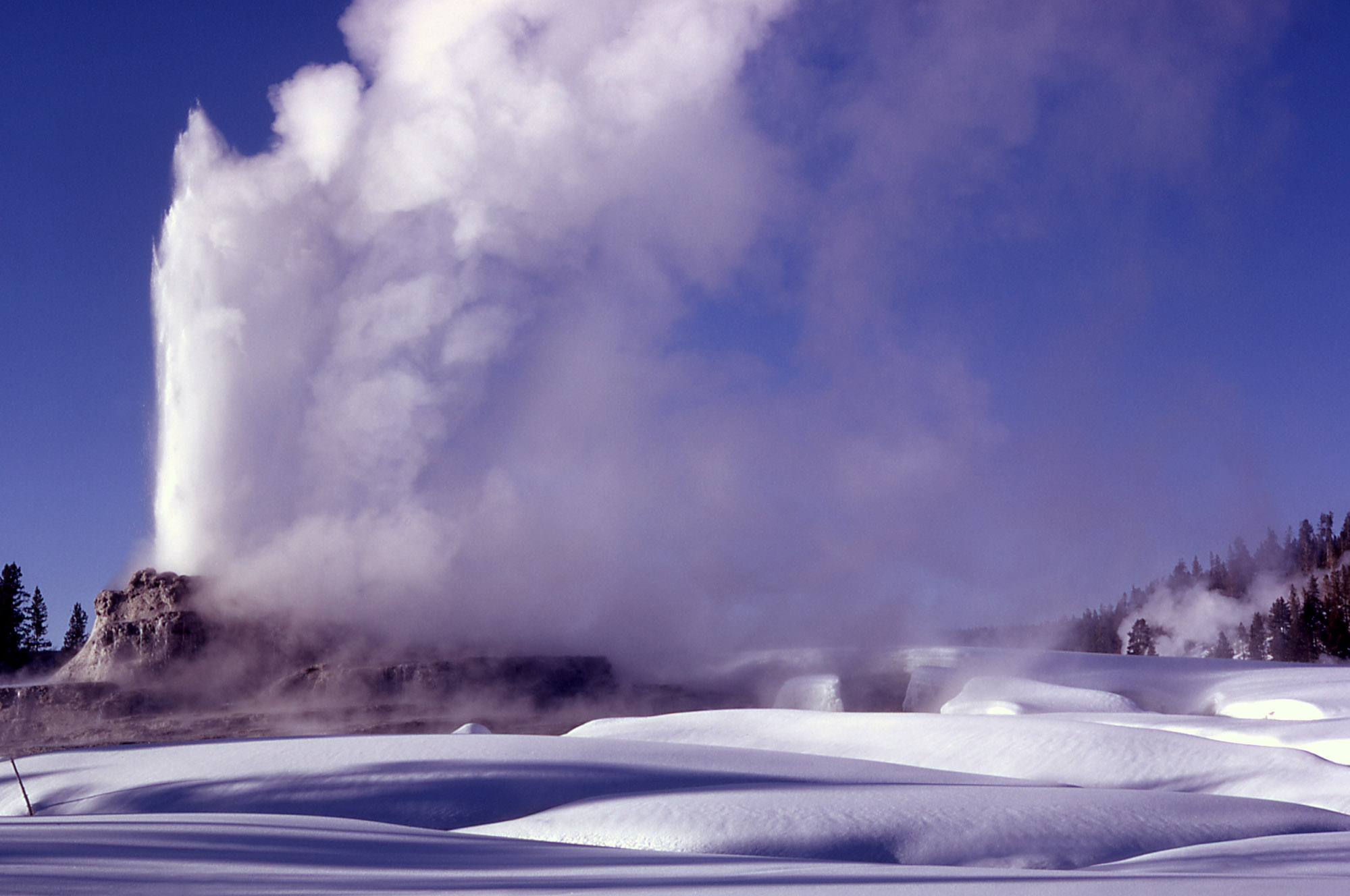 Castle Geyser in winter, Yellowstone National Park.